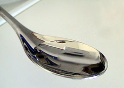 Spoon with water